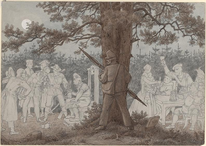 Humoristisch-satirische Darstellung (aus dem Schadow-Album). Pencil and watercolour on paper. 157 × 221 mm. Cologne, Wallraf-Richartz-Museum (Inventory number Z 01471).